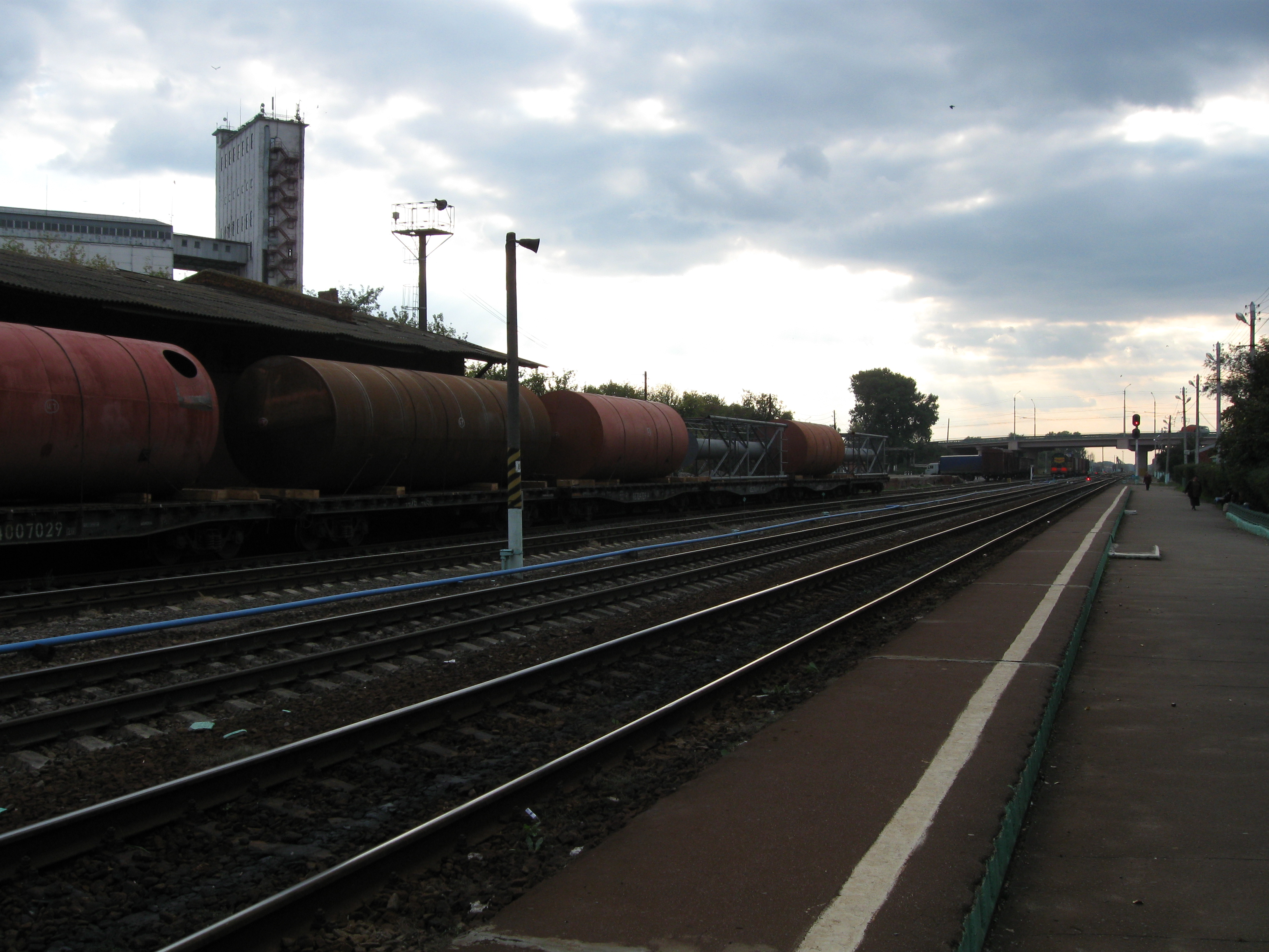 Railways at Ryshkovo Train Station (Moscow Railway). View from 1st platform in Lgov direction.